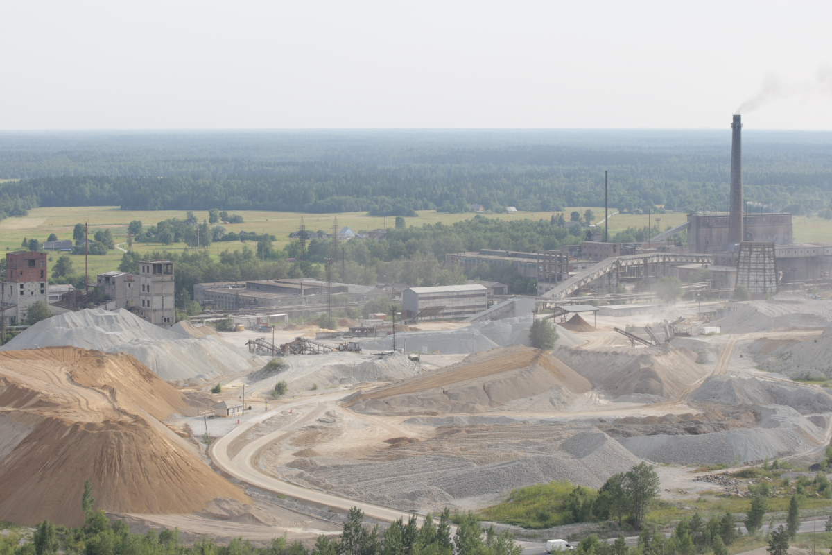 Kiviõli, Estonia